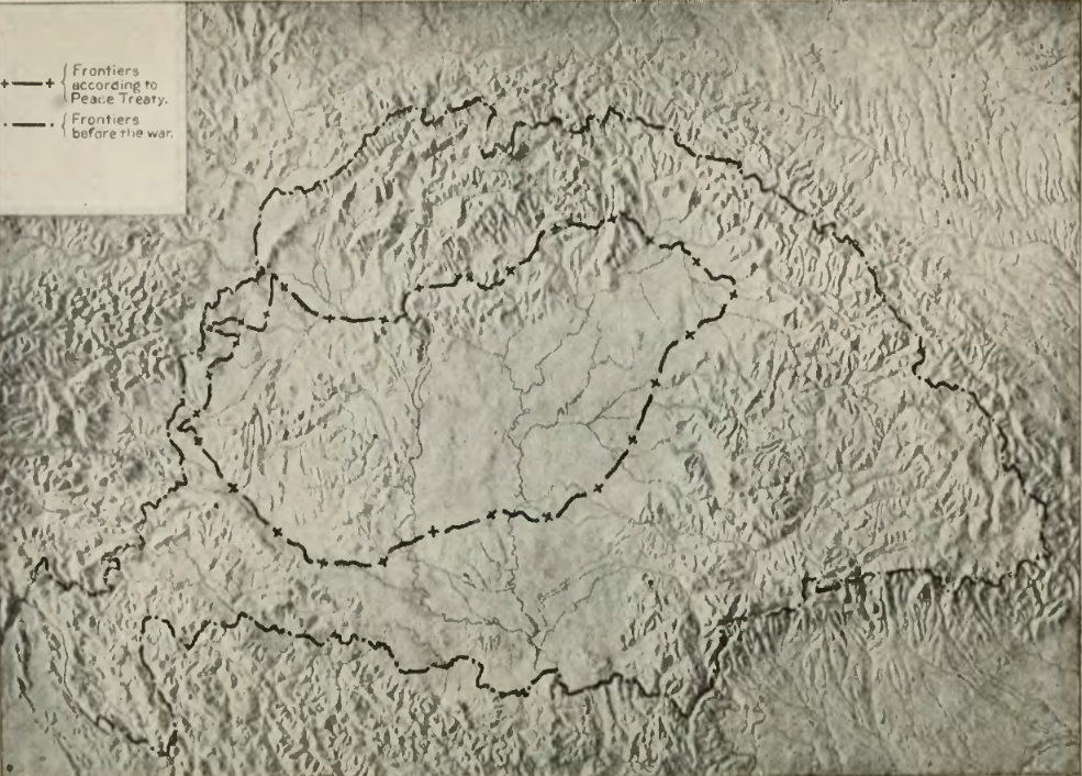 Map of Hungary showing the borders before and after the Treaty of Trianon (1920) and its topography.